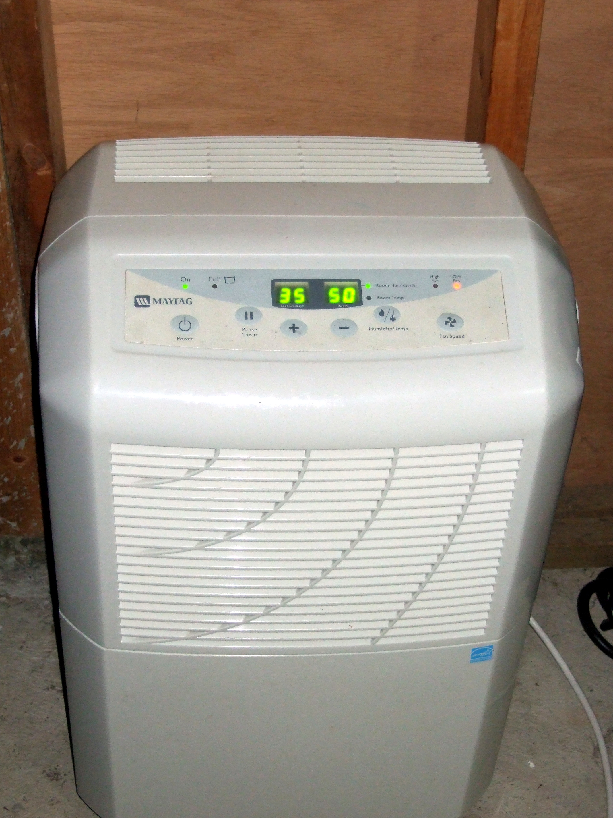 A high-resolution photograph of a Maytag dehumidifier.